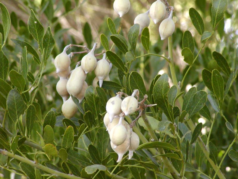 Photo of Calia secundiflora (syn. Sophora secundiflora) beans at the Desert Demonstration Garden in Las Vegas